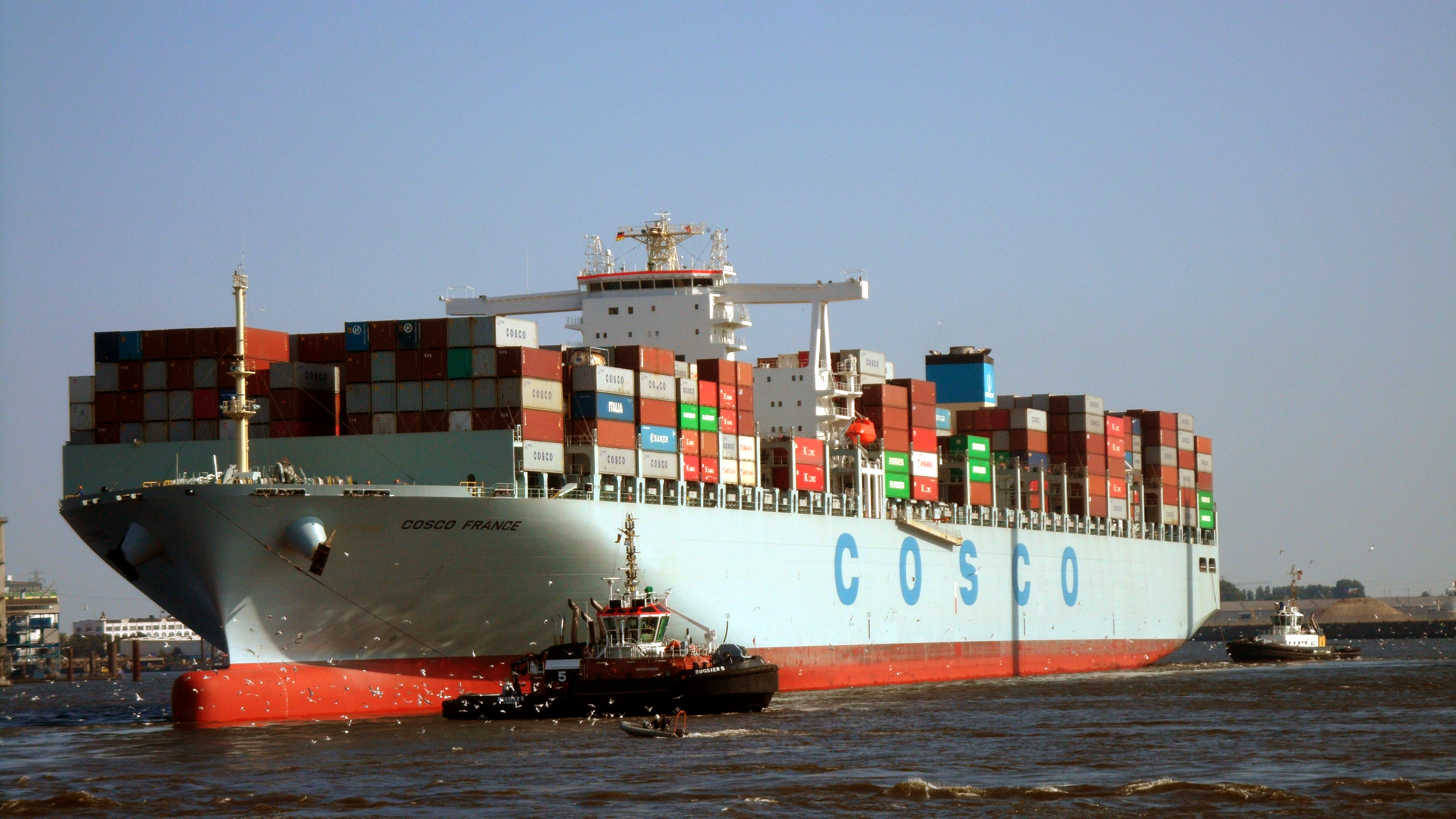 The new Cosco France - turning maneuver - Port of Hamburg 5 September 2013